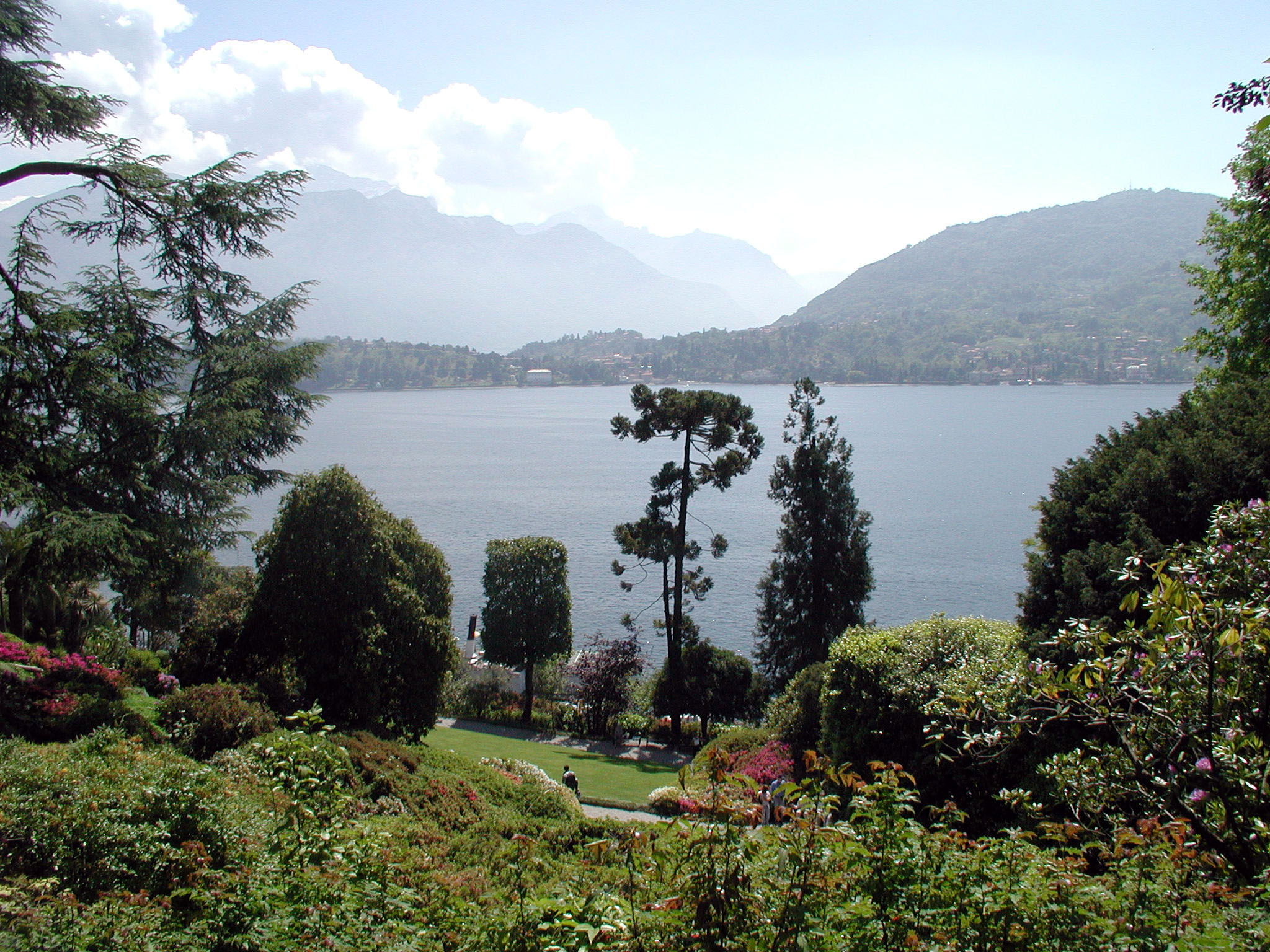 Italy, Lake Como. Villa Carlotta's garden at Tremezzo. Picture by Gaspar.vistalago